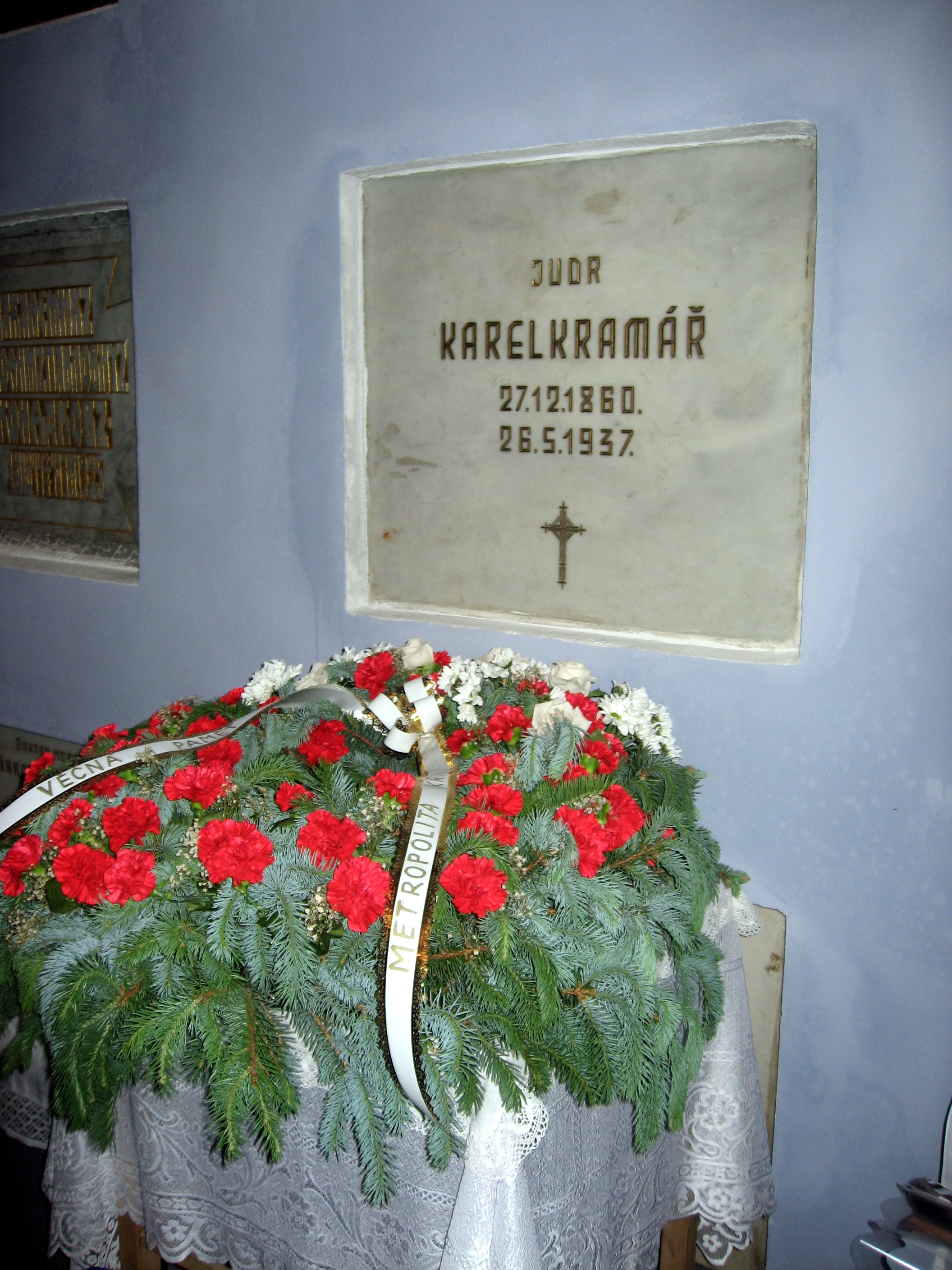 Burial site of Karel Kramář in crypt of the Dormition church at Olšany Cemetery, Prague, Czech Republic